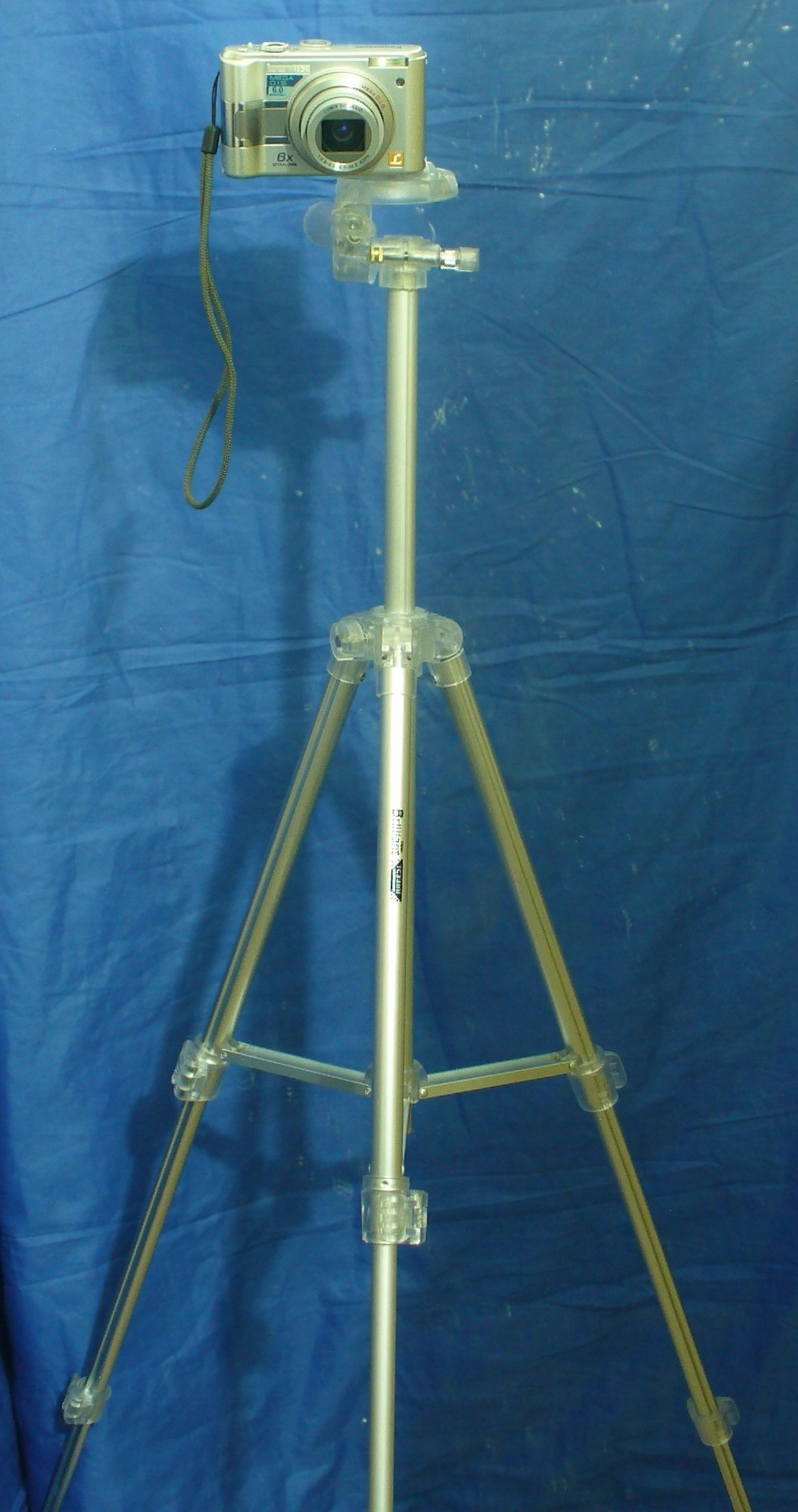 My Panasonic DMC-LZ5 camera on my Brilliant TC3388 tripod